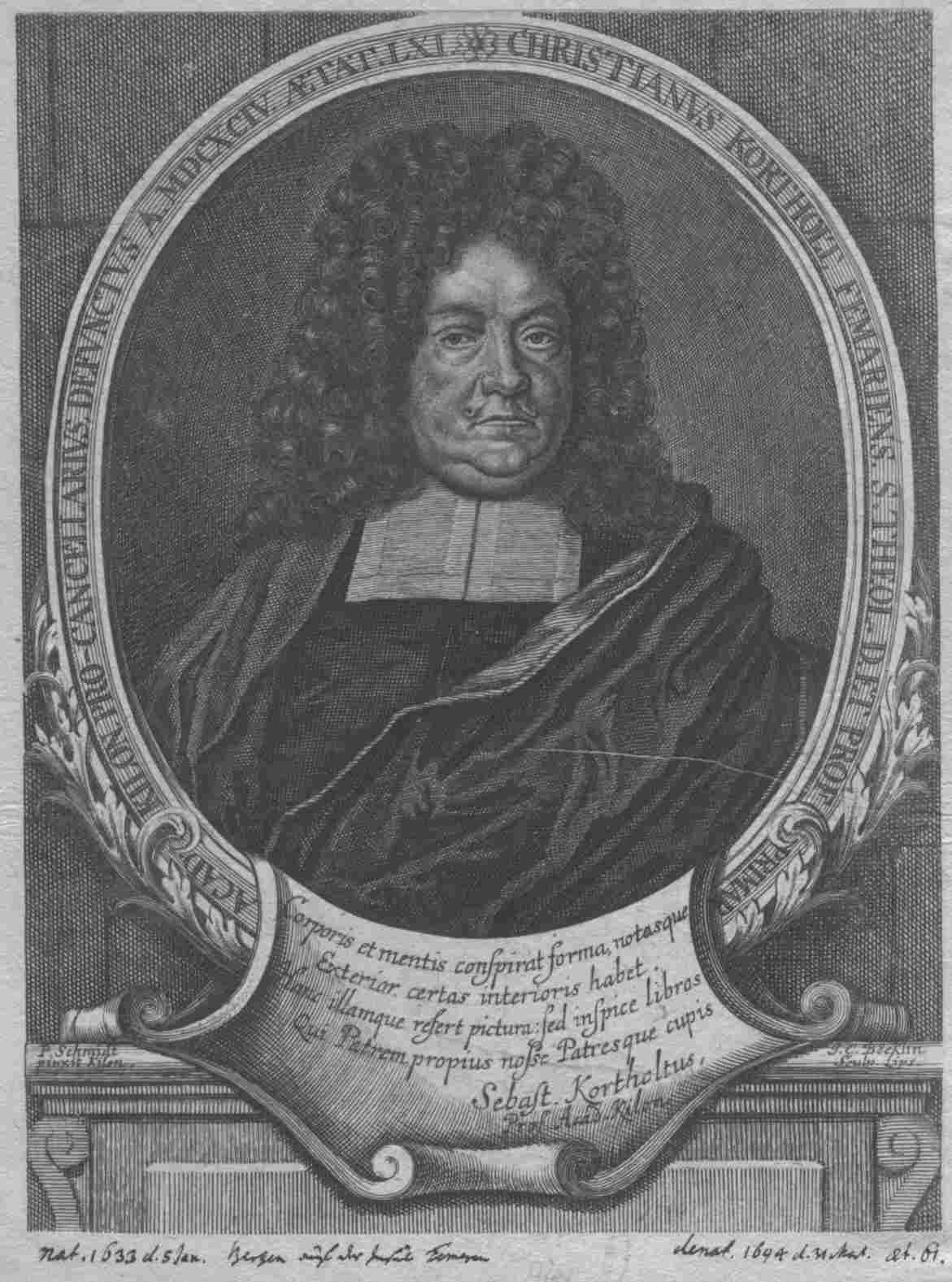 Portrait of Christian Kortholt, engraving